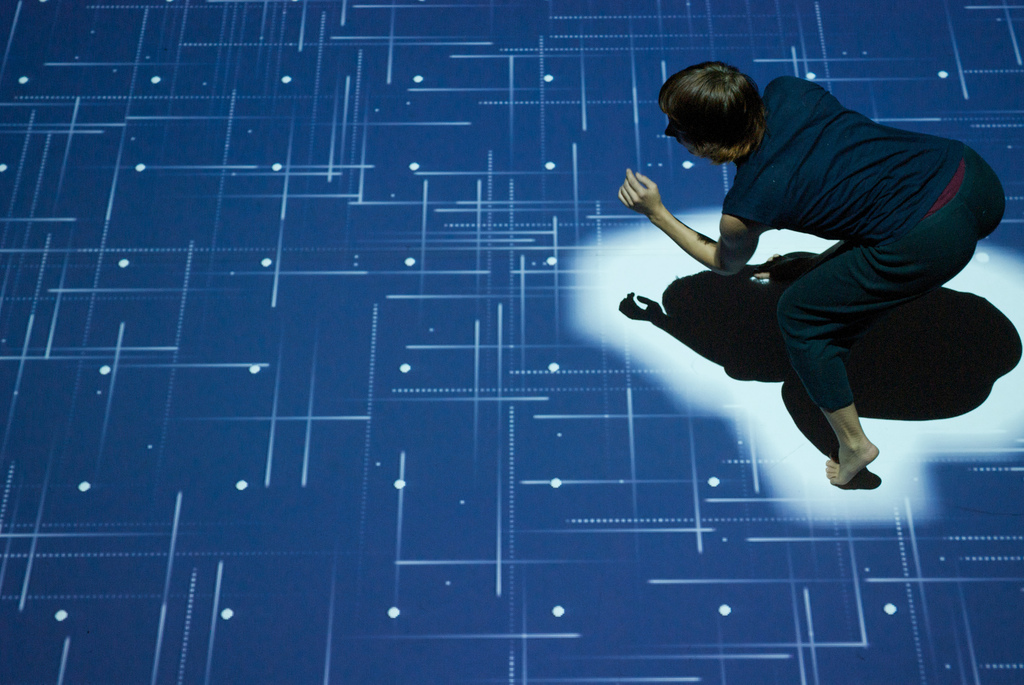 photo by: Matthias Härtig/TMA Hellerau pictures of the rehearsals for the European Tele-Plateaus project »ETP_body-spaces09 – Exploration of Nearness & Distance«, performer: Simone Model The 13th international festival for computer based art CYNETART is going to provide a collective atmospheric picture for the reflection on digital culture from 26 November until 06 December 2009 at the festival theatre Hellerau. This will be done by a variety of event formats, such as Automatic Clubbing, a presentation of the output of the European Tele-Plateaus project and the first VIPA-Congress. Another thematic focus of the festival will be the testing and exploration of new telematic media applications resulting from a continuing mediatisation. This subject is the context of the European co-operation project European Tele-Plateaus – Trans-national Sites of Encounter and Co-Production. This project was started by Trans-Media-Akademie Hellerau together with partners from Norrköping, Madrid and Prague in 2008. It aims at creating virtual sound-image-spaces for the public to walk-in and inter-act in a sensate-bodily condition. This will be across long distances and within networked virtual environments in real-time. CYNETART 2009 will show the recent output of this project within “ETP_body-spaces09 – Exploration of Nearness & Distance” an experimental performance from 03 until 06 December. This performance will involve four dancers, interacting simultaneously in the partner cities, connected via internet and networked in a virtual sound-image space.